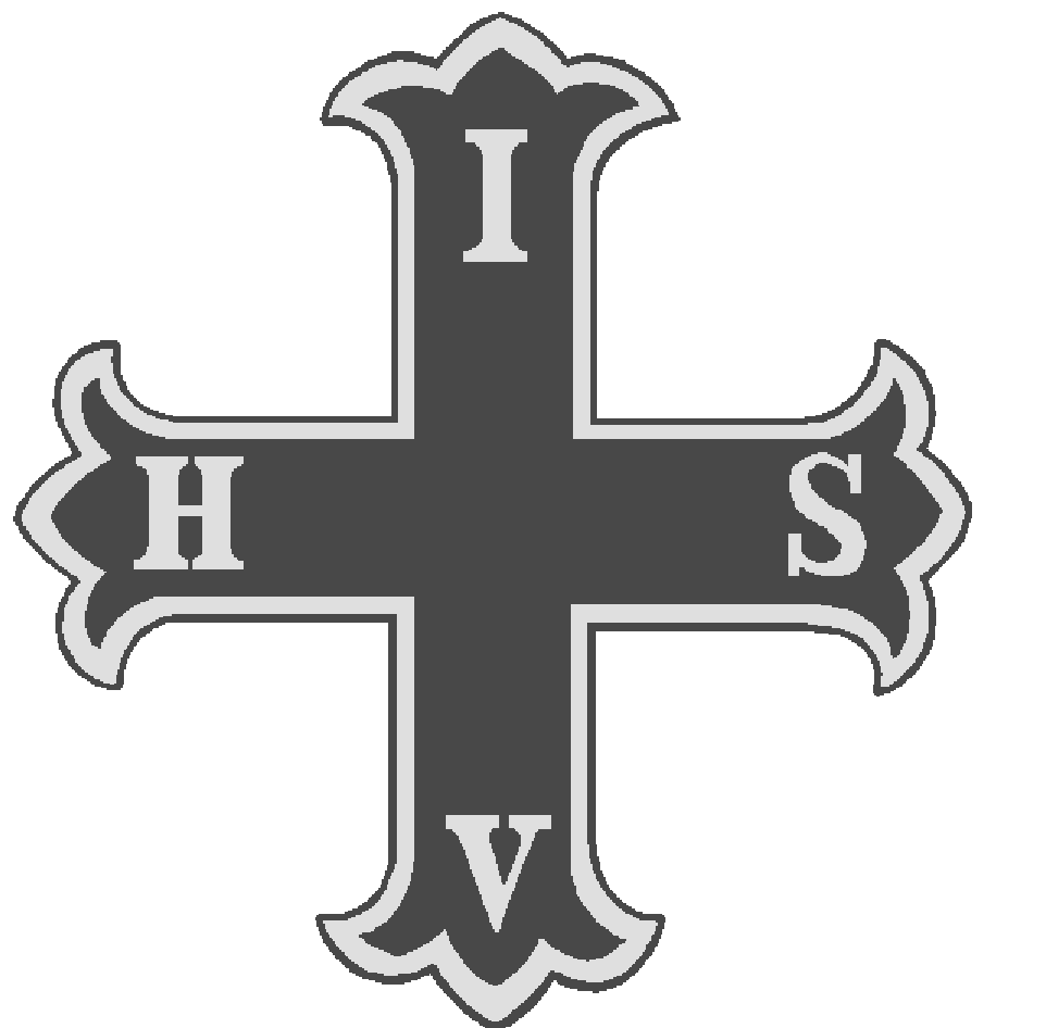 The badge of a Knight of the Red Cross of Constantine (Masonic Order).